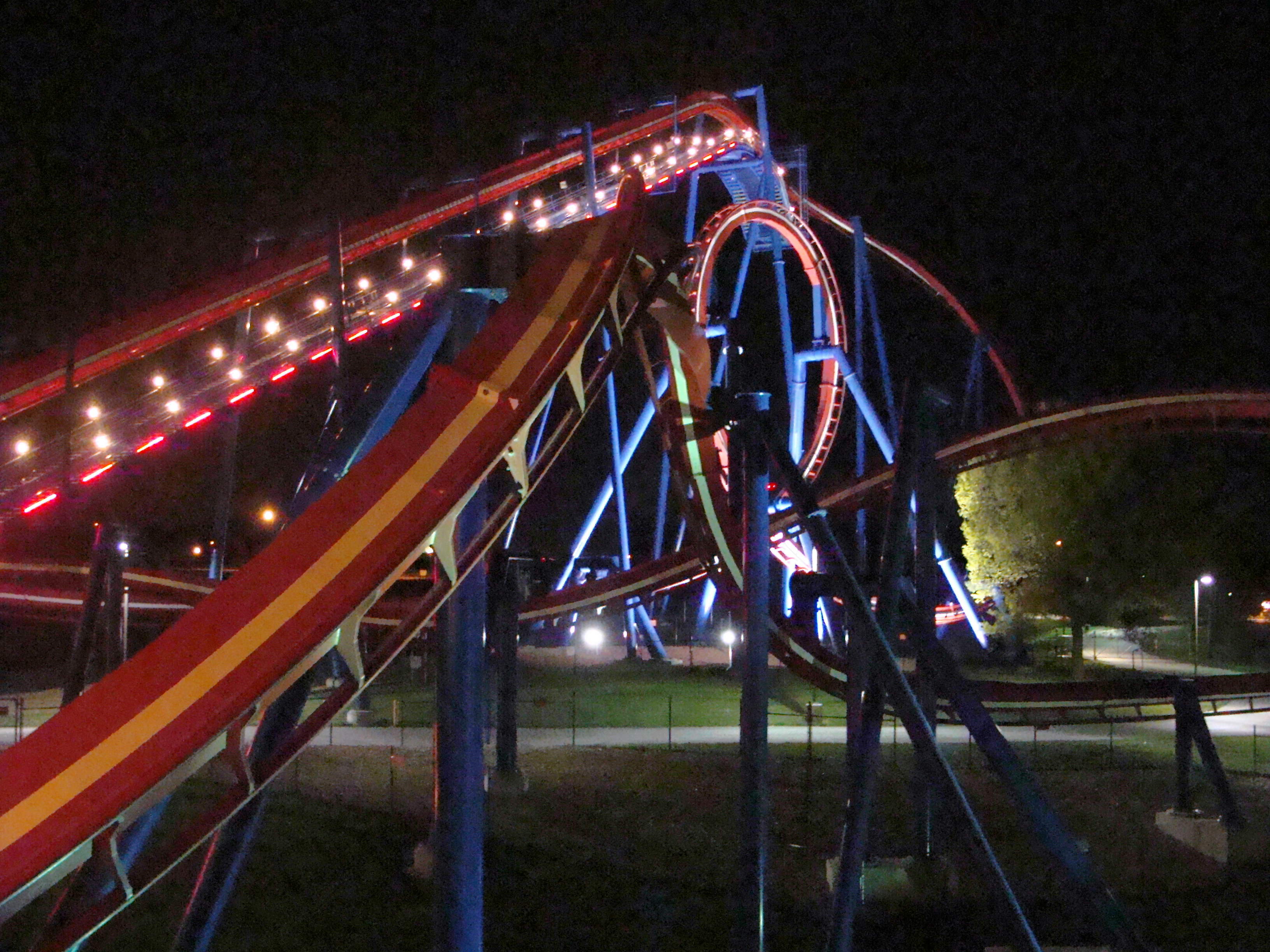 Patriot ride at night